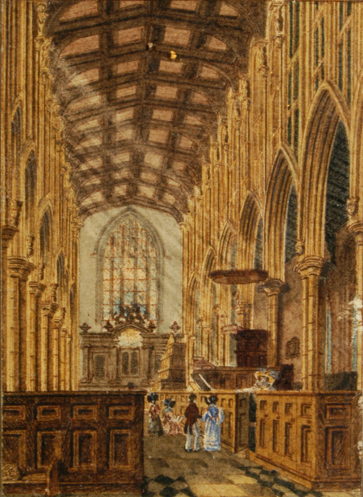 Melford church interior, looking towards the east window. Watercolour, 7.5 x 5.5 cm